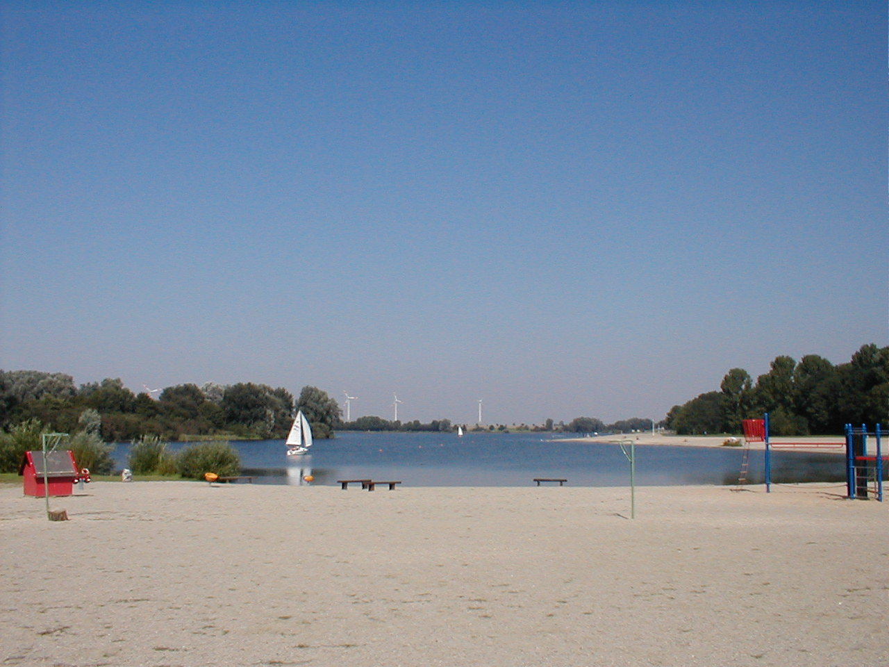 Salzgitter Lake in the year 2005